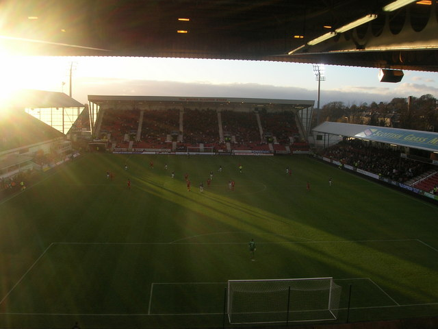 East End Park A nice day